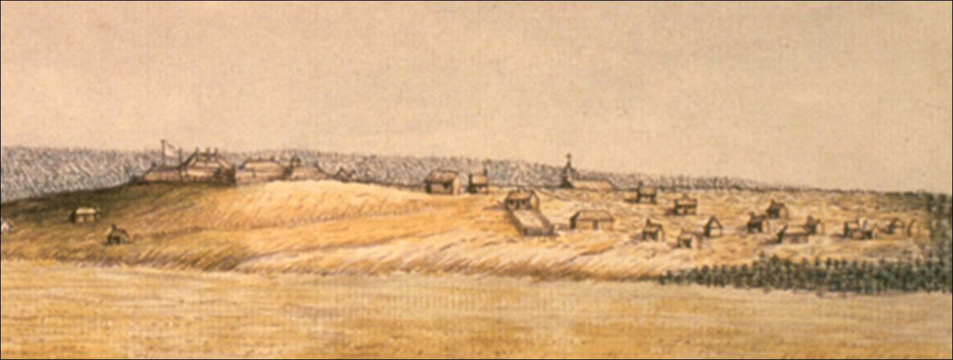 Fort Beausejour 1755 by Capt Hamilton